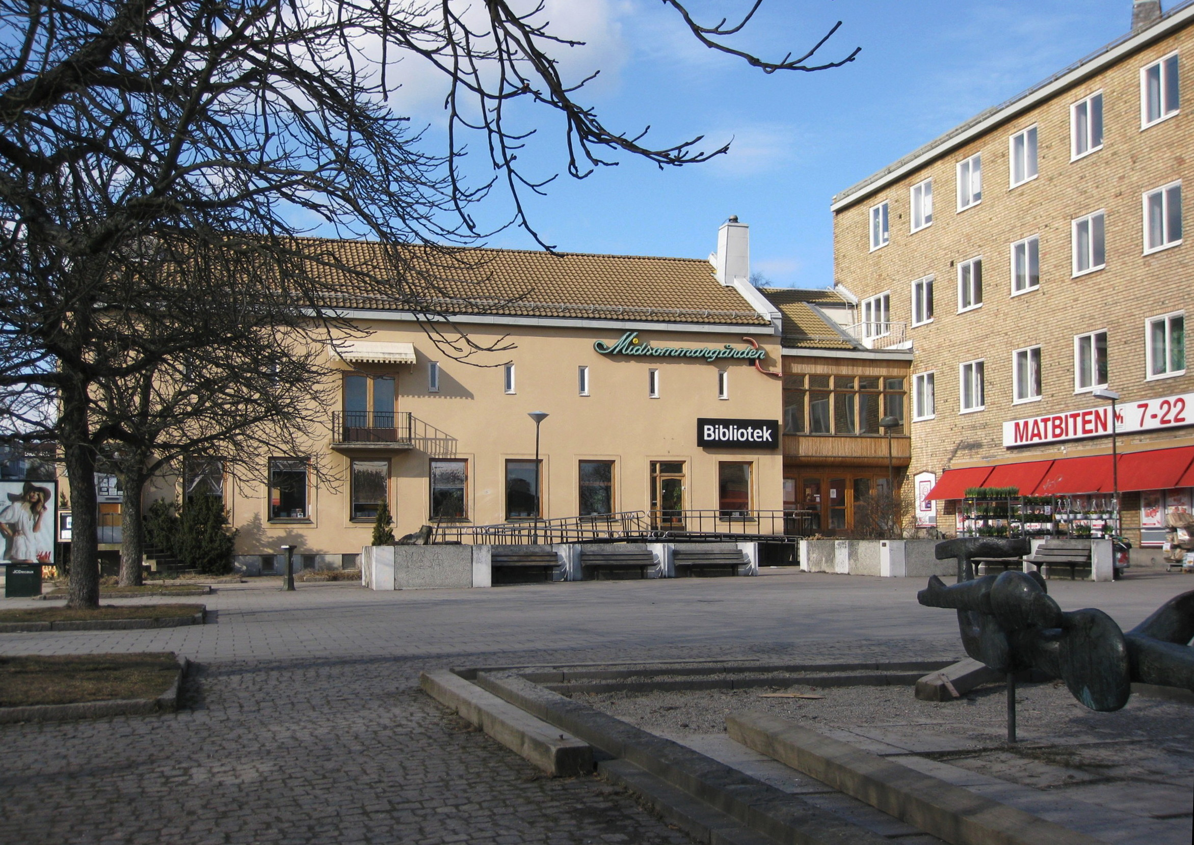 Midsommargården, Midsommarkransen, southwest Stockholm, Sweden.